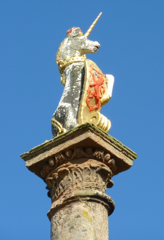 Preston Market Cross, Preston, East Lothian, Scotland. The unicorn on top.